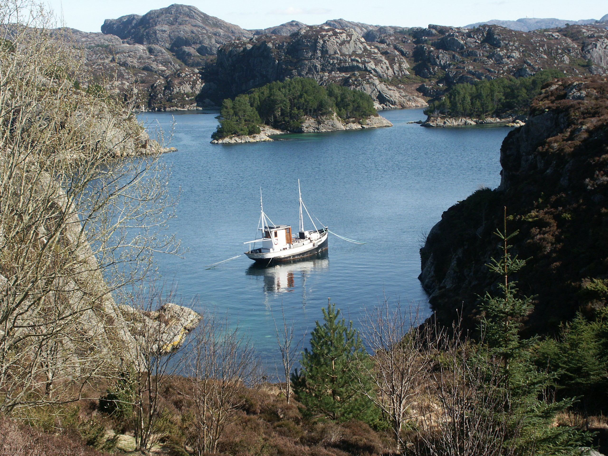 Fjord landscape, Sotra. Photo: Frode Inge Helland